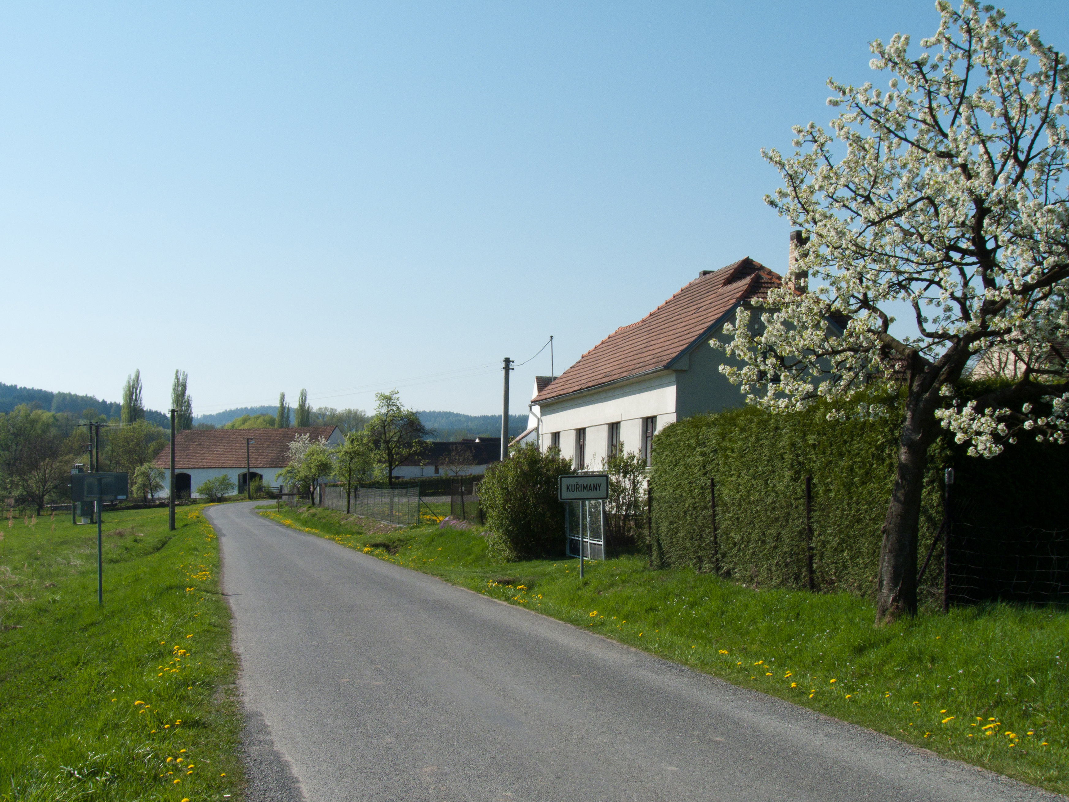 Southbound view towards house No 21 in the village of Kuřimany, Strakonice District, Czech Republic.